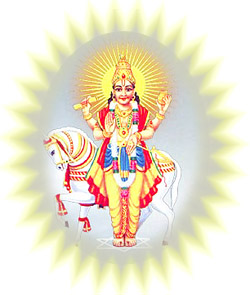 Shukra graha